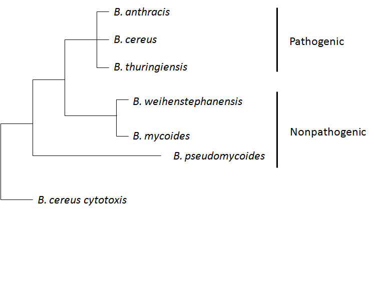 Bacillus anthracis belongs to the Bacillus cereus group of strains. Based on the publication: Kolsto, A, et al. (2009) What Sets Bacillus anthracis Apart from Other Bacillus Species? Annu. Rev. Microbiol. 2009. 63:451–76.